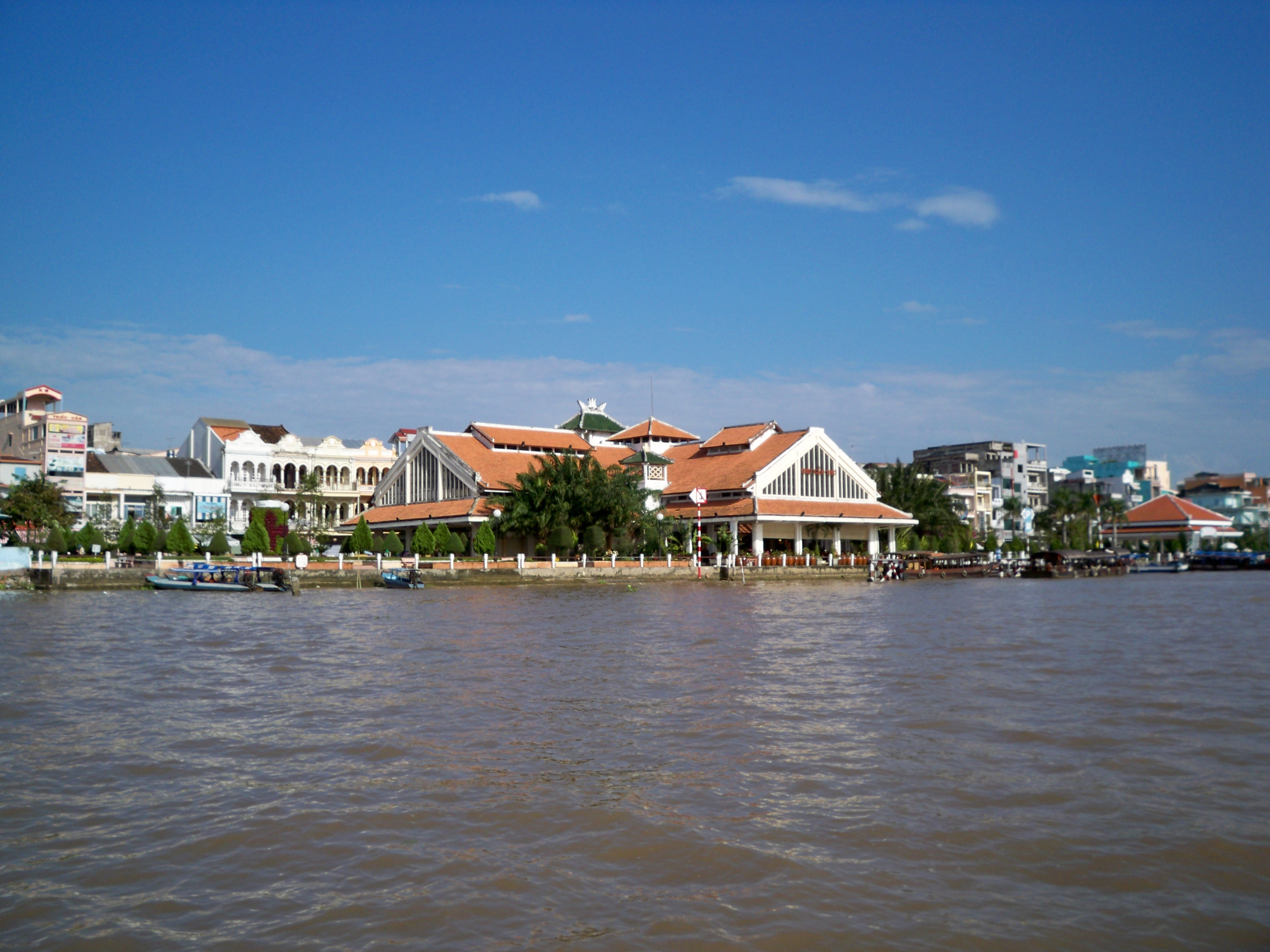 Ninh Kiều Market